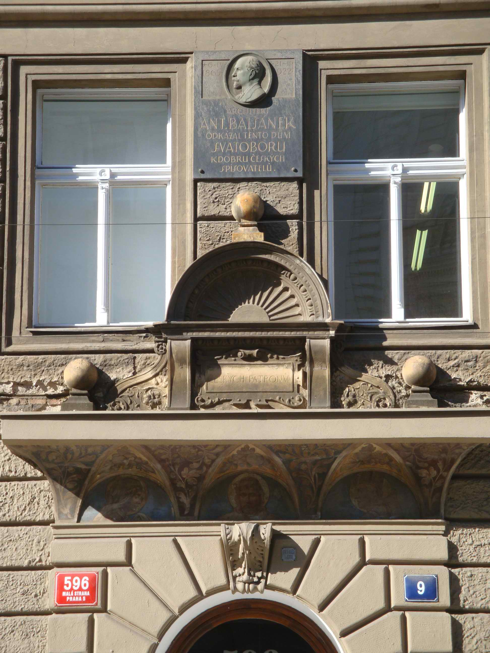 Memory desk of Antonín Balšánek, Prague